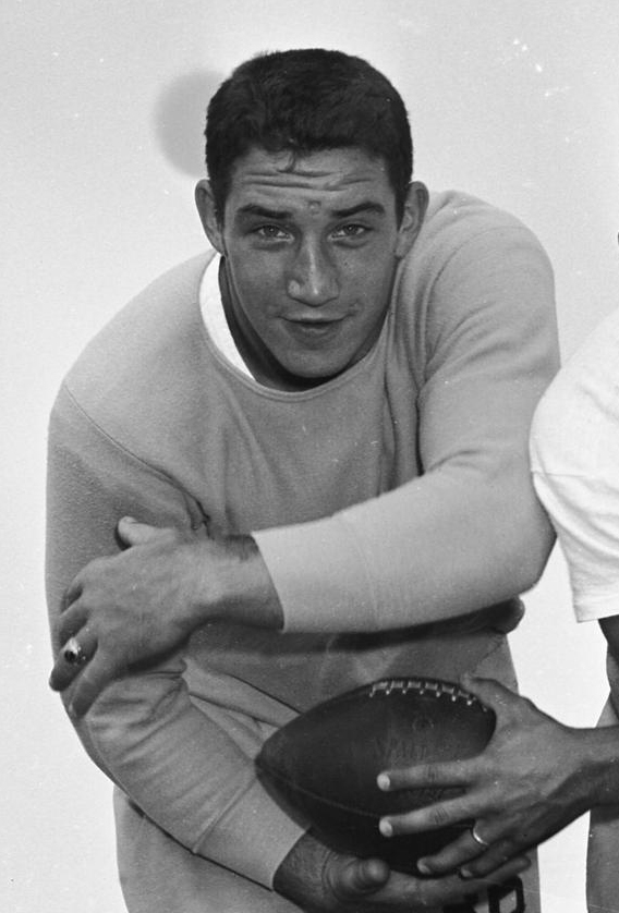 Left to right BC Lions football players, Don Vicic, Ron 'Toppy' Vann and Paul Cameron VPL Accession Number: 59736 Date: July 20, 1957 Photographer/Studio: Province Newspaper Cunningham, William Topic: Football players Portraits, Group Person: Vicic, Don Vann, Ron 'Toppy' Cameron, Paul Organization: B.C. Lions Football Club Location: British Columbia More information on our historical photograph collection